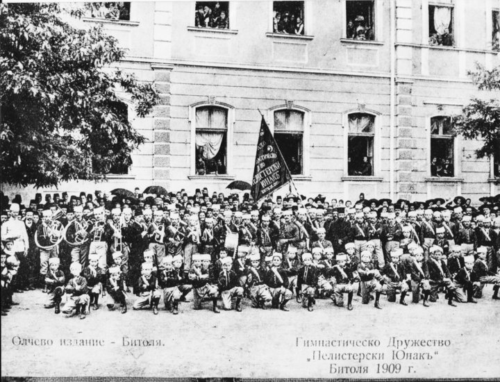 Picture of Bulgarian gymnastic union Pelisterski Yunak, Bitolia (Monastir) 1909